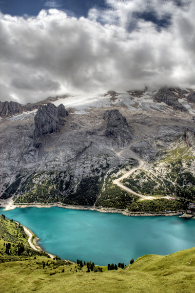 Marmolada Glacier - Italy